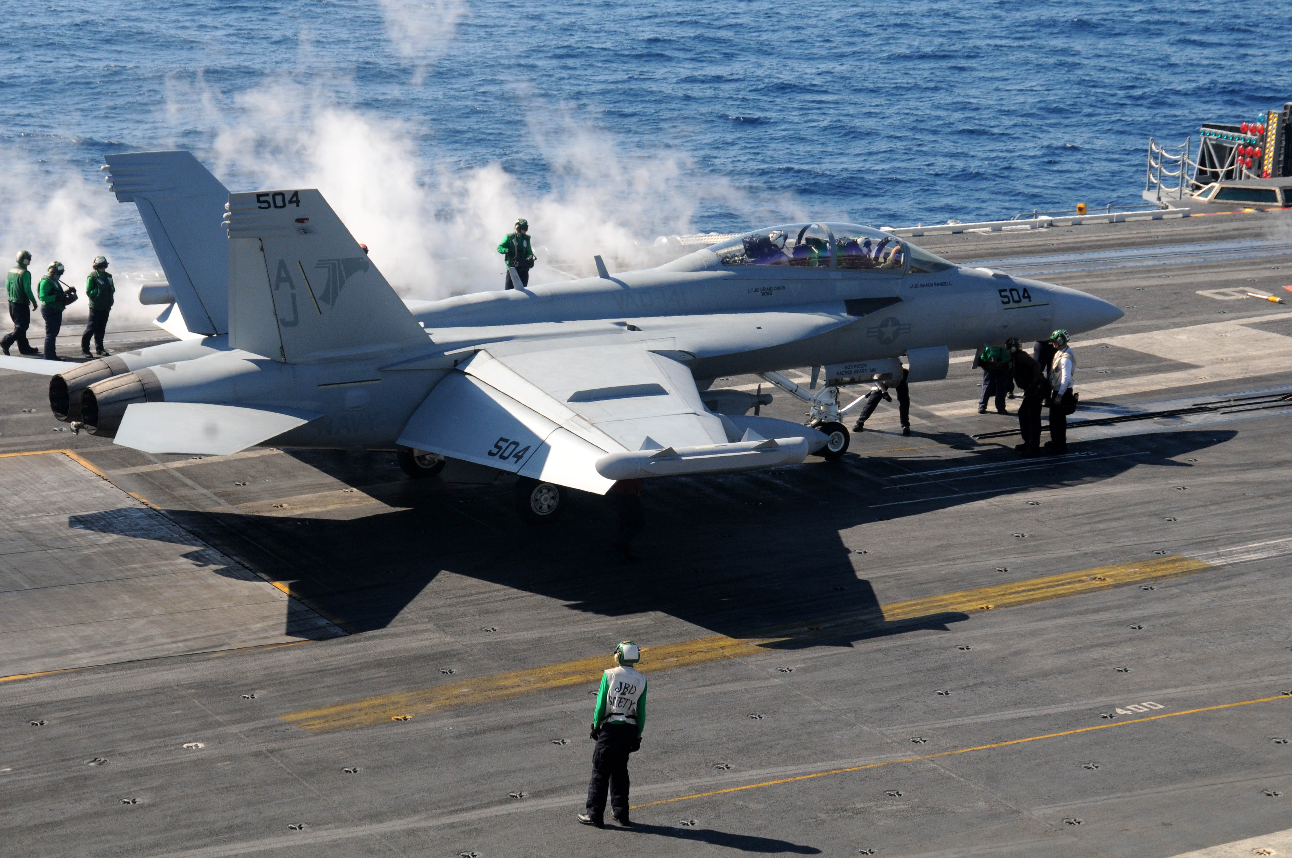 ATLANTIC OCEAN (Jan. 29, 2011) An EA-18G Growler assigned to the Shadowhawks of Electronic Attack Squadron (VAQ) 141 prepares to take off from the aircraft carrier USS George H.W. Bush (CVN 77). George H.W. Bush is underway in the Atlantic Ocean conducting a composite training unit exercise. (U.S. Navy photo by Mass Communication Specialist Seaman Billy Ho/Released)